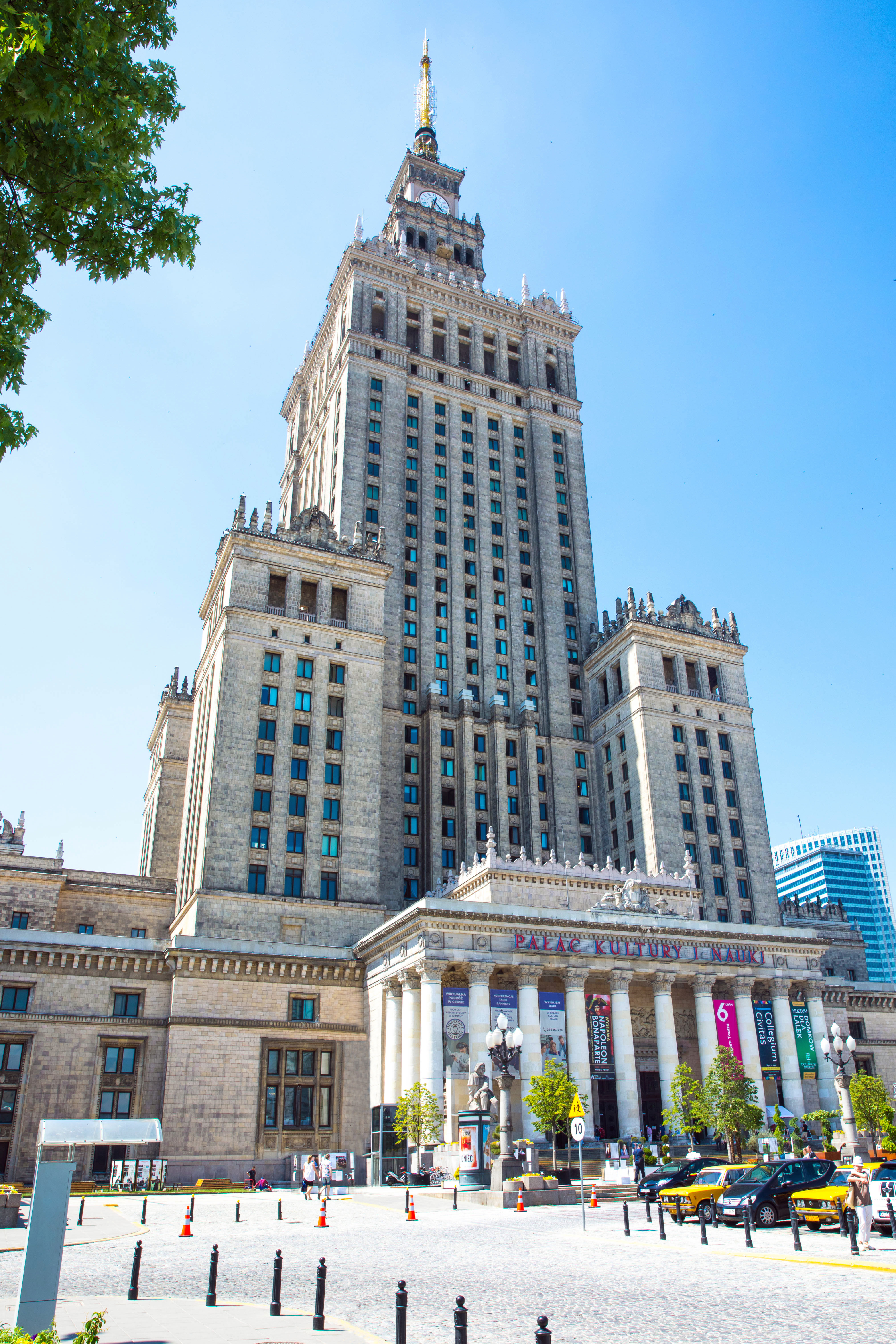 EPP Political Assmbly in Warsaw, 4-5 June 2018